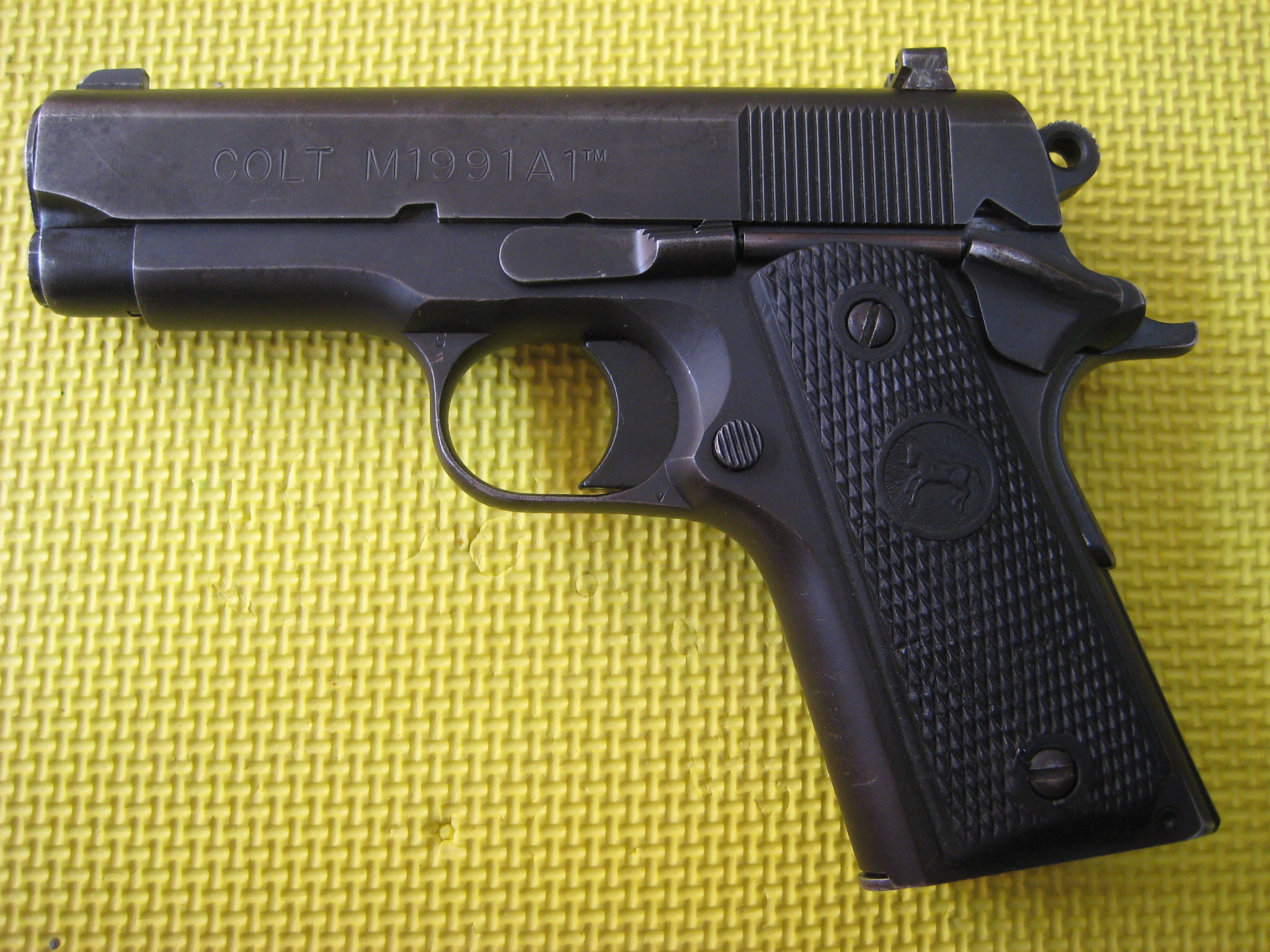 Colt semiautomatic 1991A1 compact pistol.